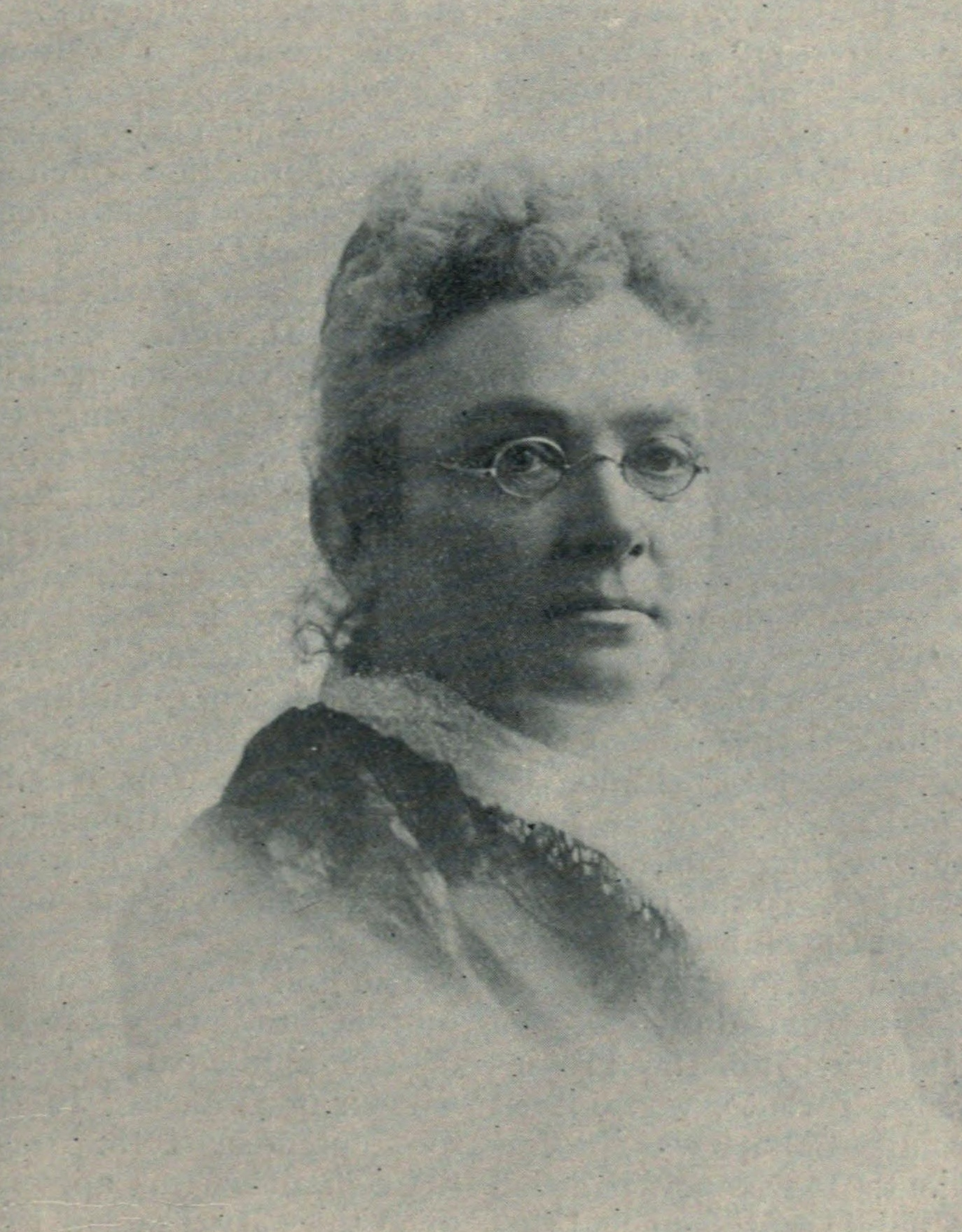 Portrait of Emily Stowe